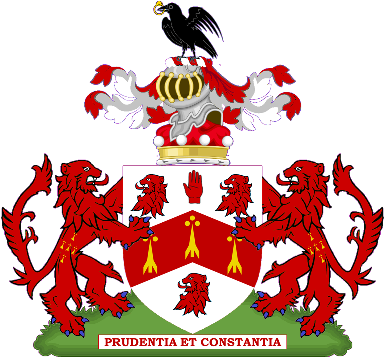 The armorial achievement of the Barons Denman and baronets of Staffield